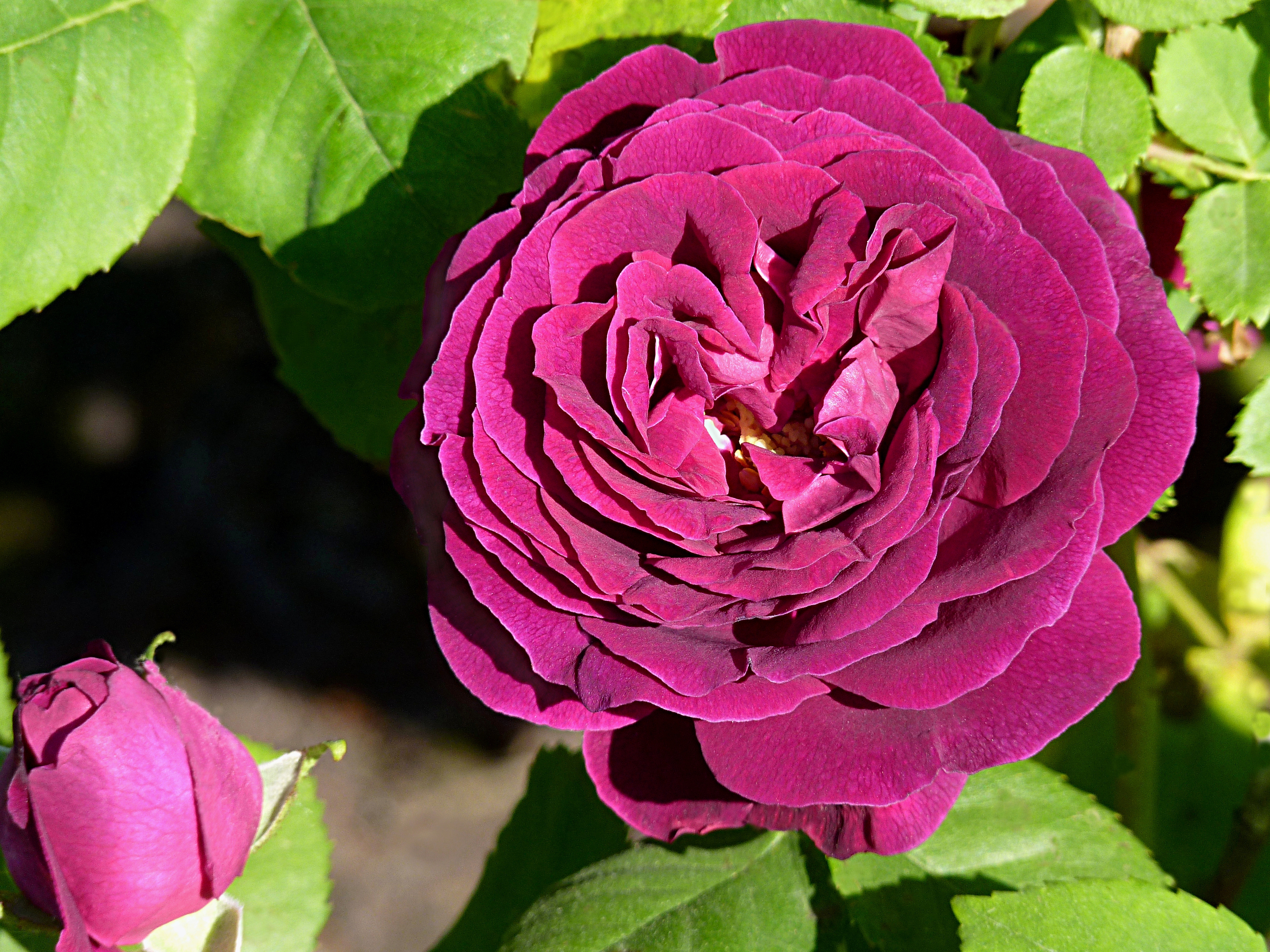 Rosa 'Souvenir du Docteur Jamain' (Lacharme, 1865), in the international rose garden of Kortrijk, Belgium.